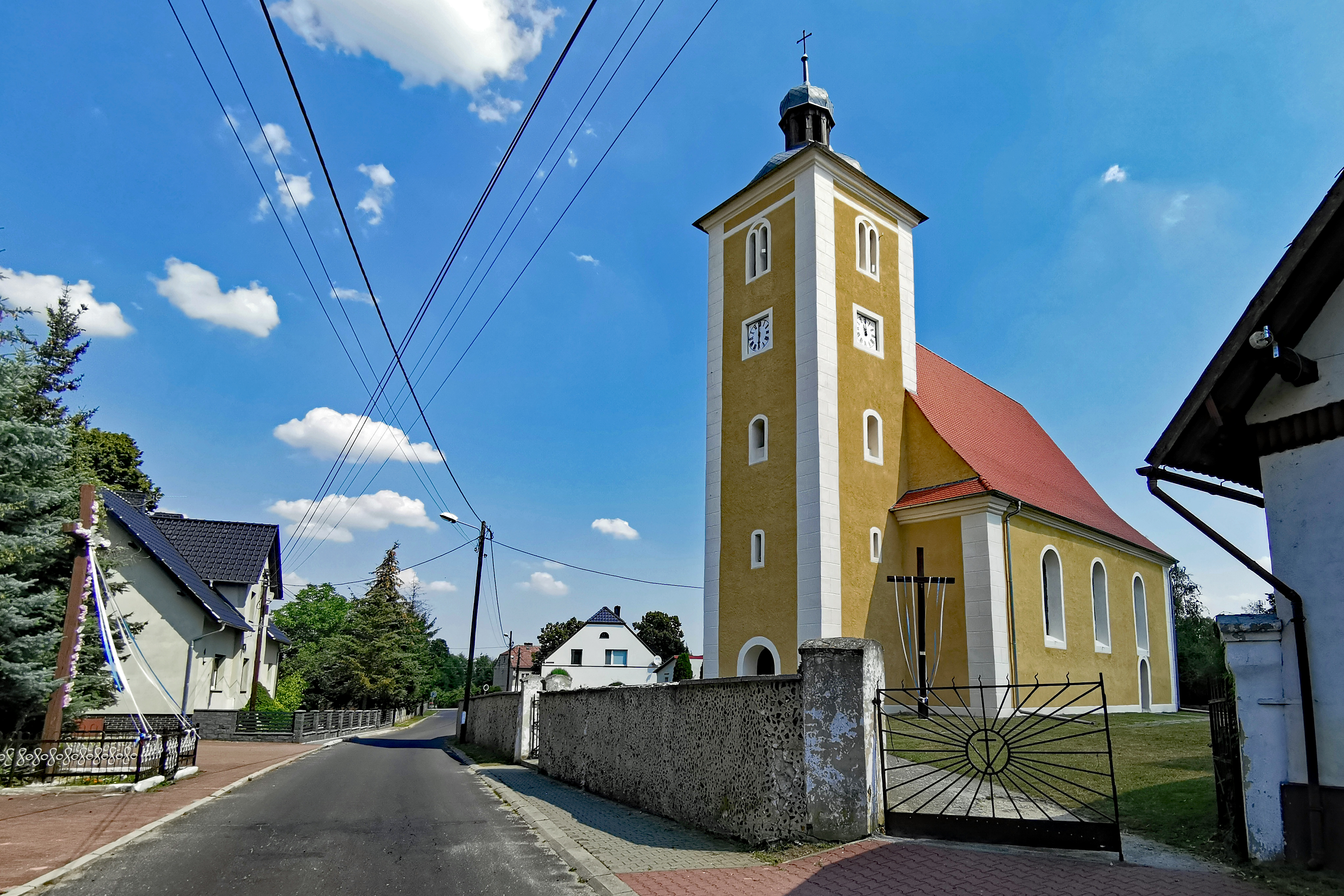 Zarki Wielkie (Poland)